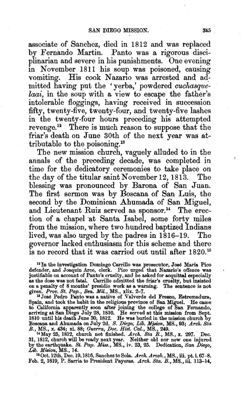 Page 345 of "History of California: The Works of Hubert Howe Bancroft". Autor: Hubert Howe Bancroft. Publ. 1886 by "The History Company".